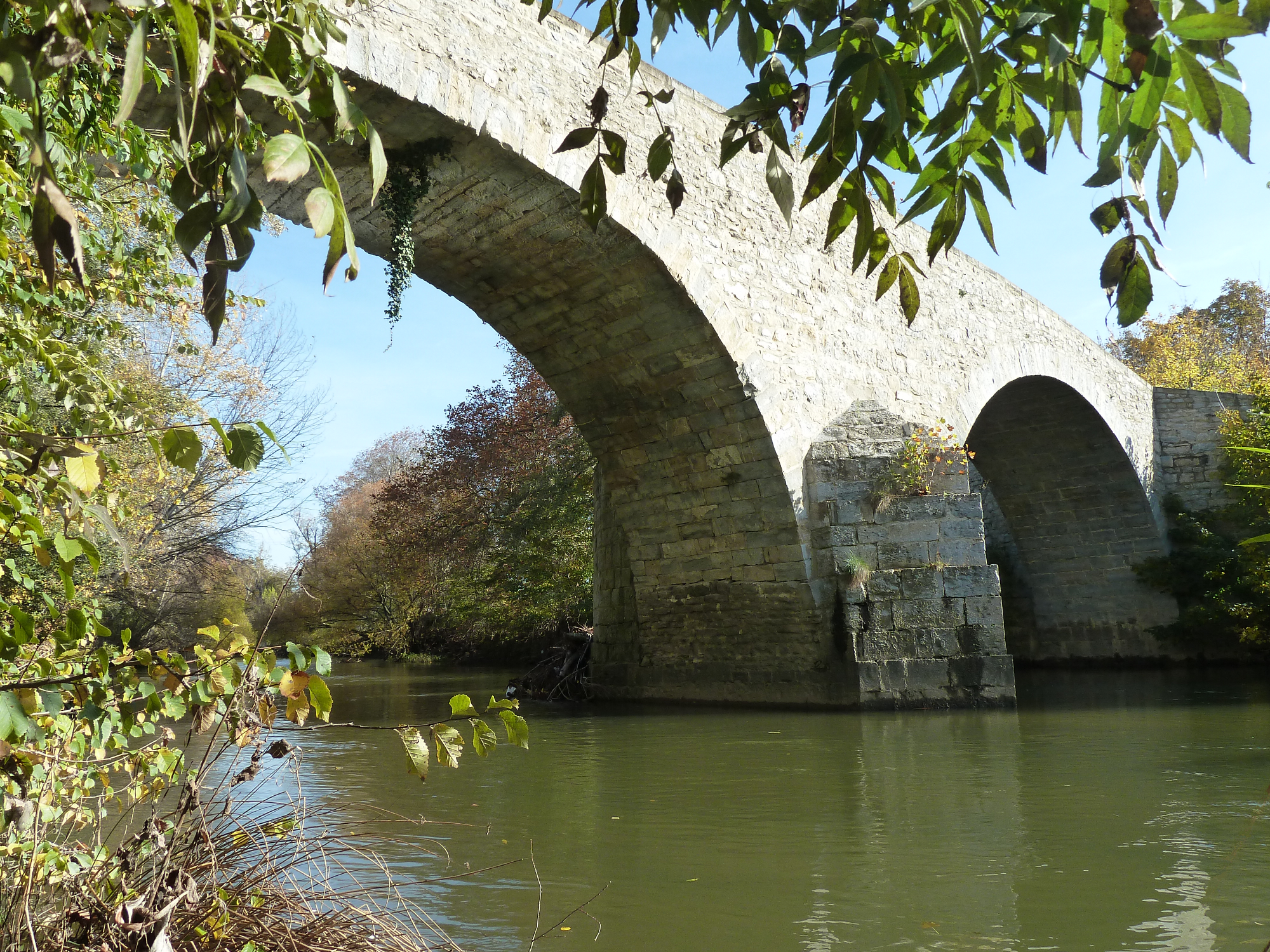 Stone bridge built in the Middle Ages, but possibly of Roman origin. Already in the thirteenth century is mentioned in some documents. In the nineteenth century reconstruction was lowered the slope. Perhaps it was destroyed in the Francesadas. The oldest parts are the three arches, the interior of the arches and parapet, all done in stone. Today it's a pedestrian bridge and in 1939 was appointed Artistic Historical Monument.